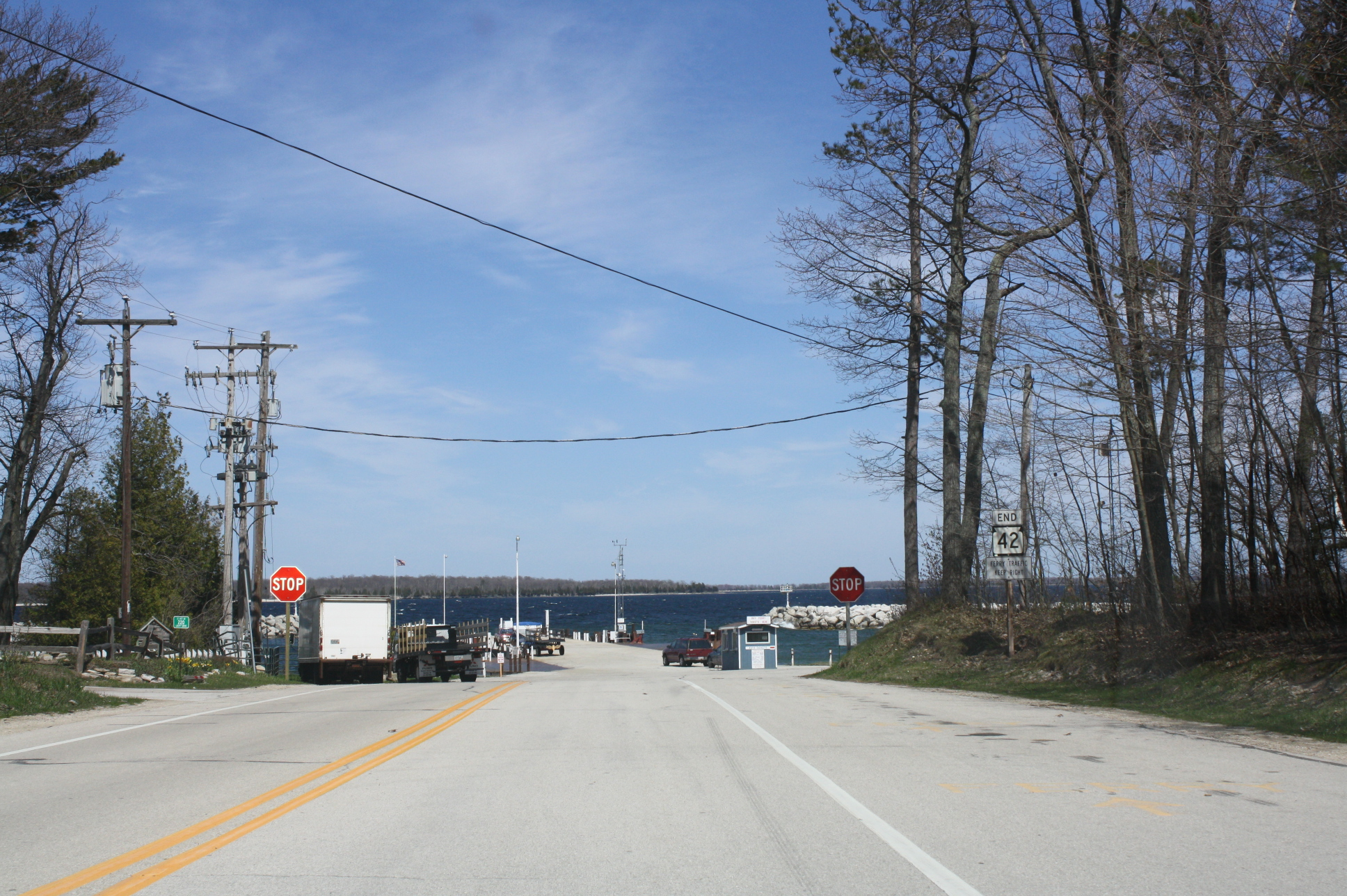 The northernmost terminus of Wisconsin Highway 42 which is extremely curvy.